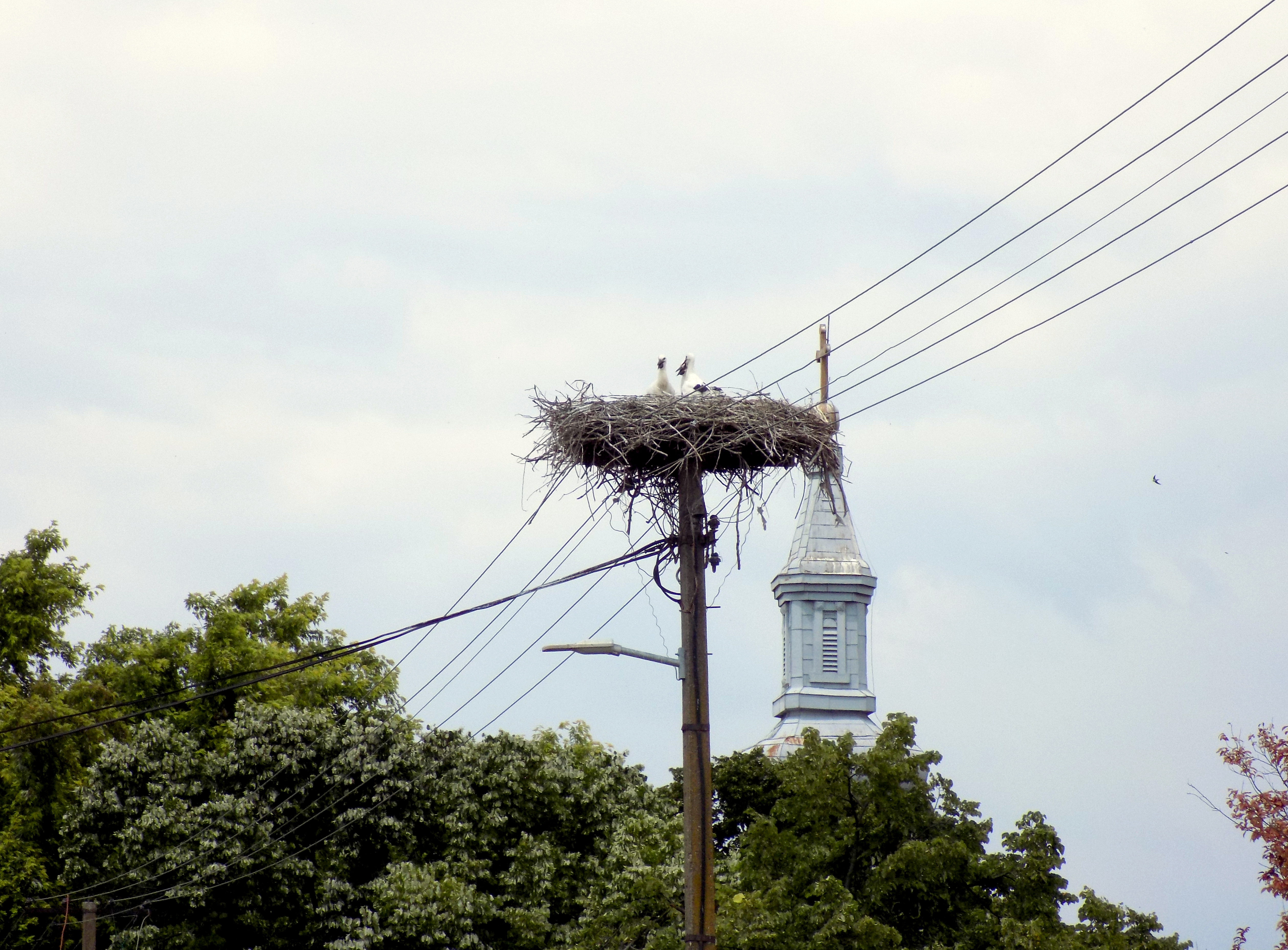 Stork's nest next to the church tower of Church of the Annunciation of the Holy Mother in Idvor. The storks are, by the way, one of the symbols of Idvor. There are dozens of nests in the village, made on chimneys and electric poles.